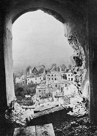 Village Valbruna (german: Wolfsbach, slovene: Ovčja vas), entirely destroyed in the First World War in the Val Canale, at that time part of Carinthia / Austria–Hungary, nowadays Friuli-Venezia Giulia / Italy / EU.